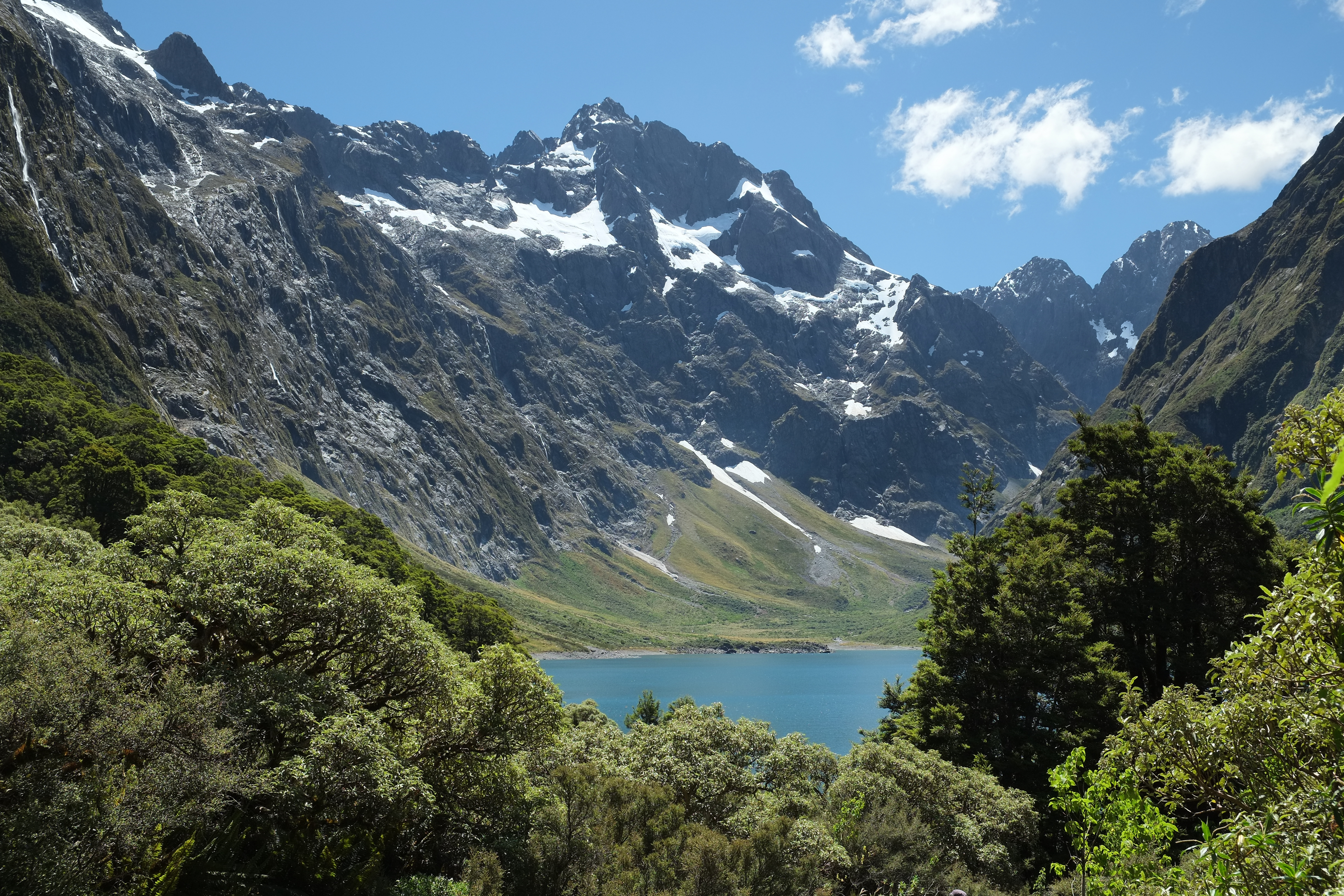 Glimpse of Lake Marian in front of Mt Crosscut